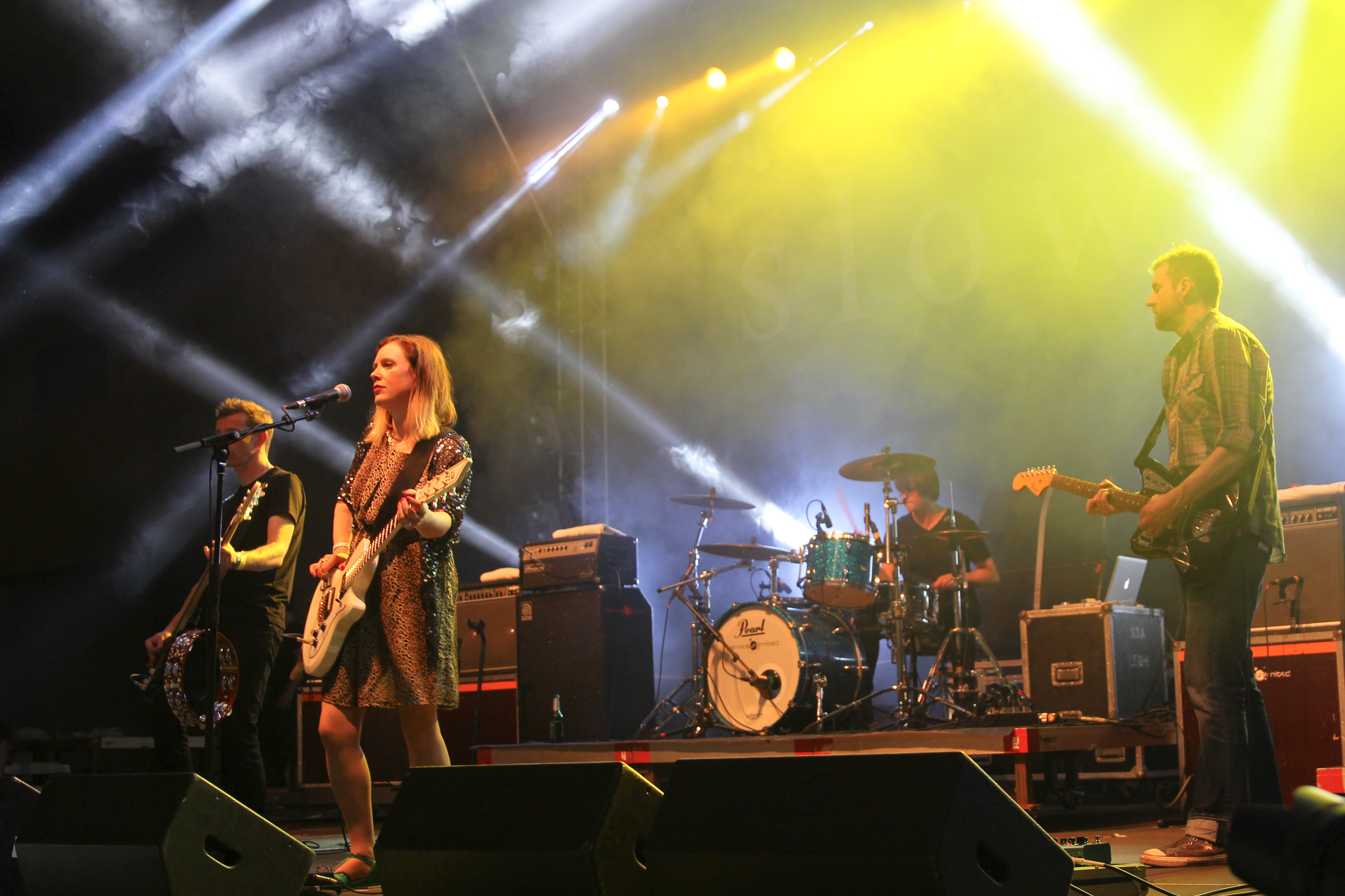 English rock band Slowdive at the Wave-Gotik-Treffen 2014.